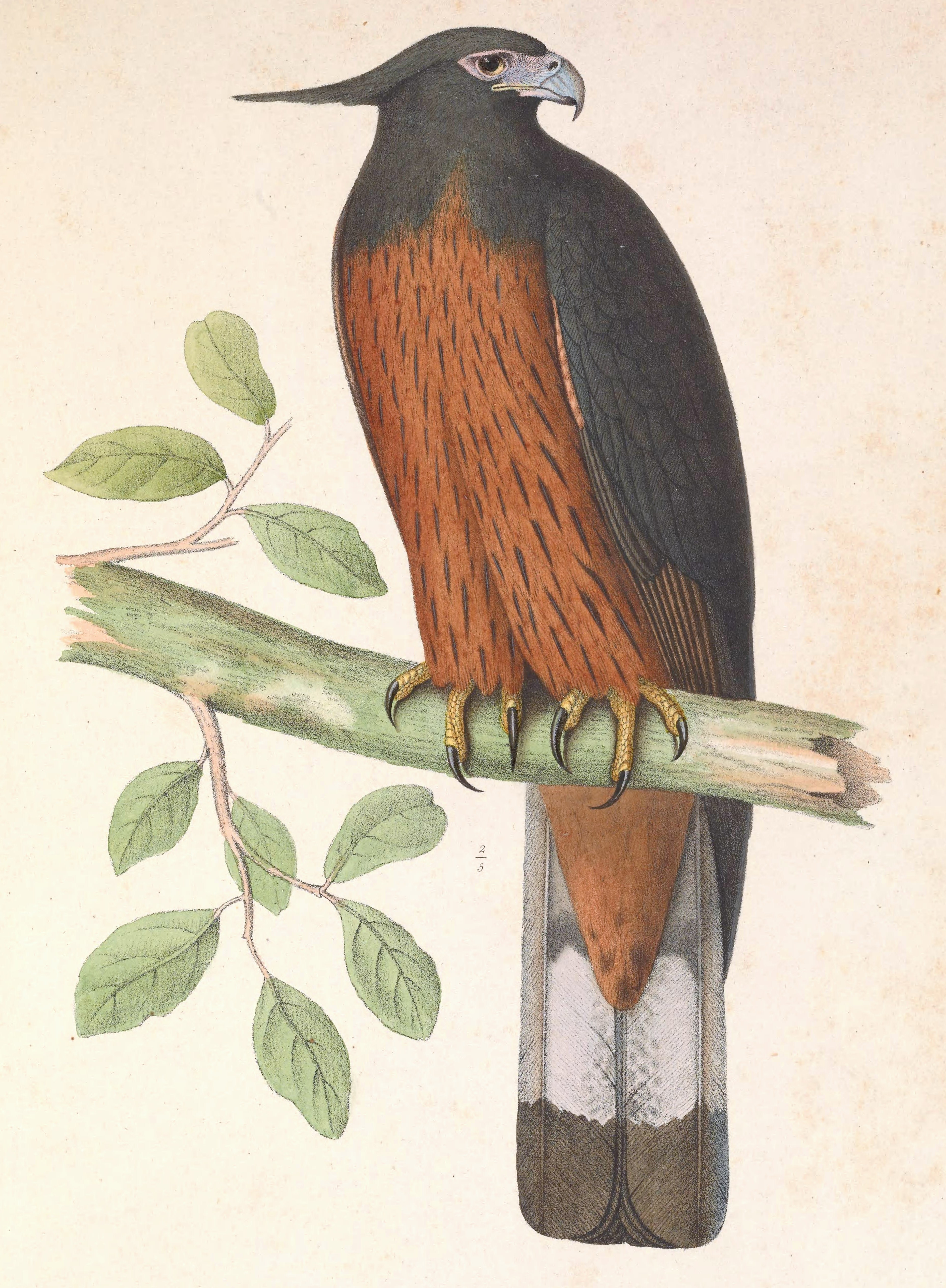 Aquila isidori = Spizaetus isidori (Black-and-chestnut Eagle)